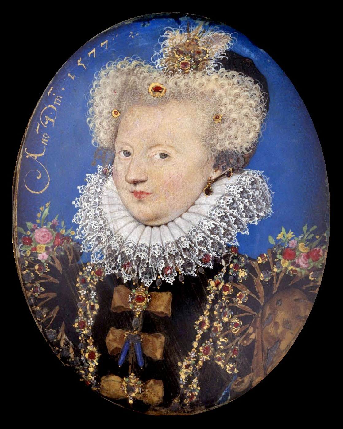 Marguerite of Valois, Queen of Navarre. Miniatures.